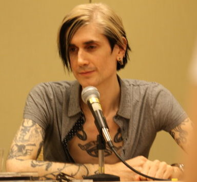 Doc Hammer at the David Bowie panel at Dragon*Con 2010